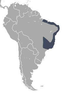 Northern Three-striped Opossum (Monodelphis americana) range